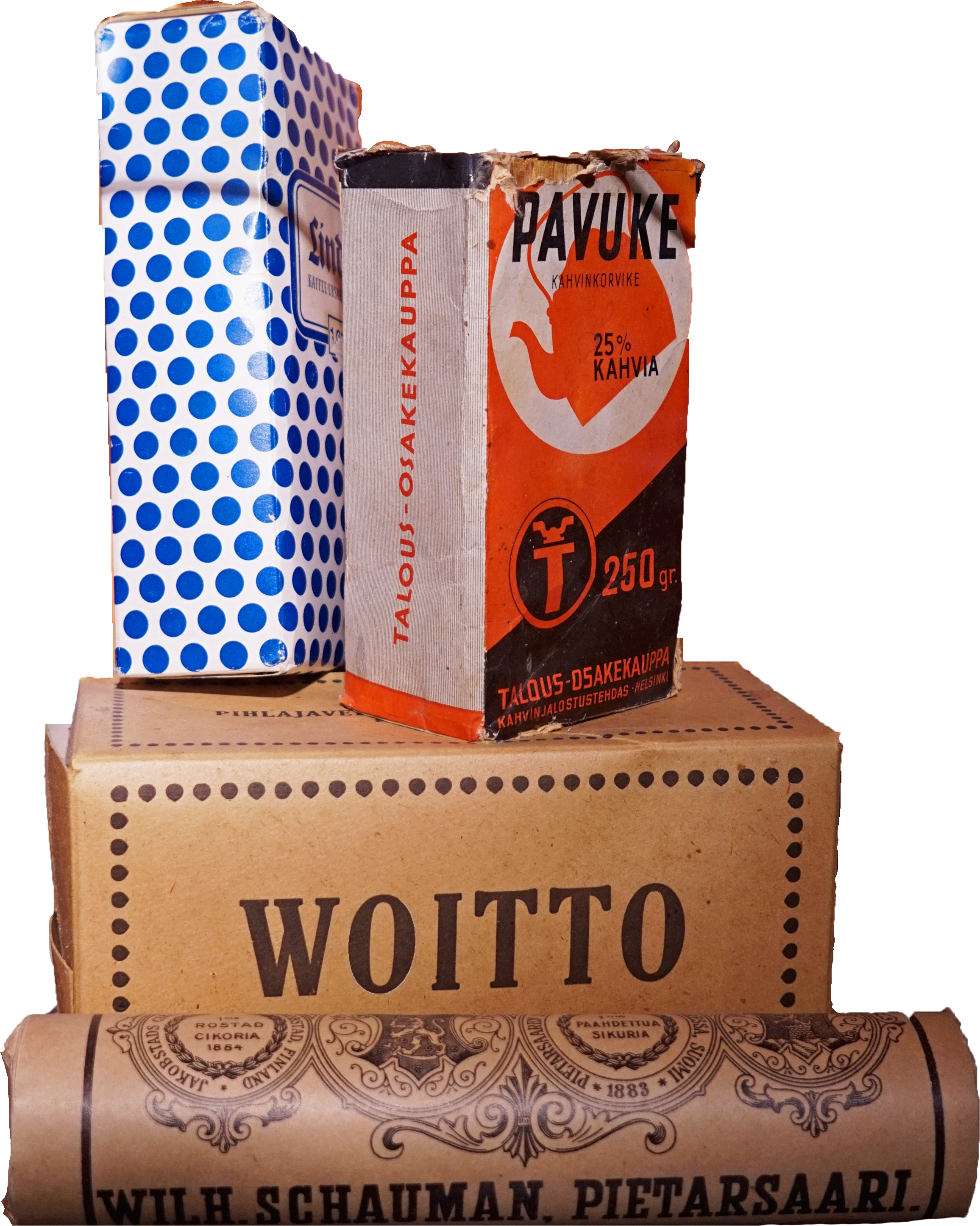 Coffee substitutes.